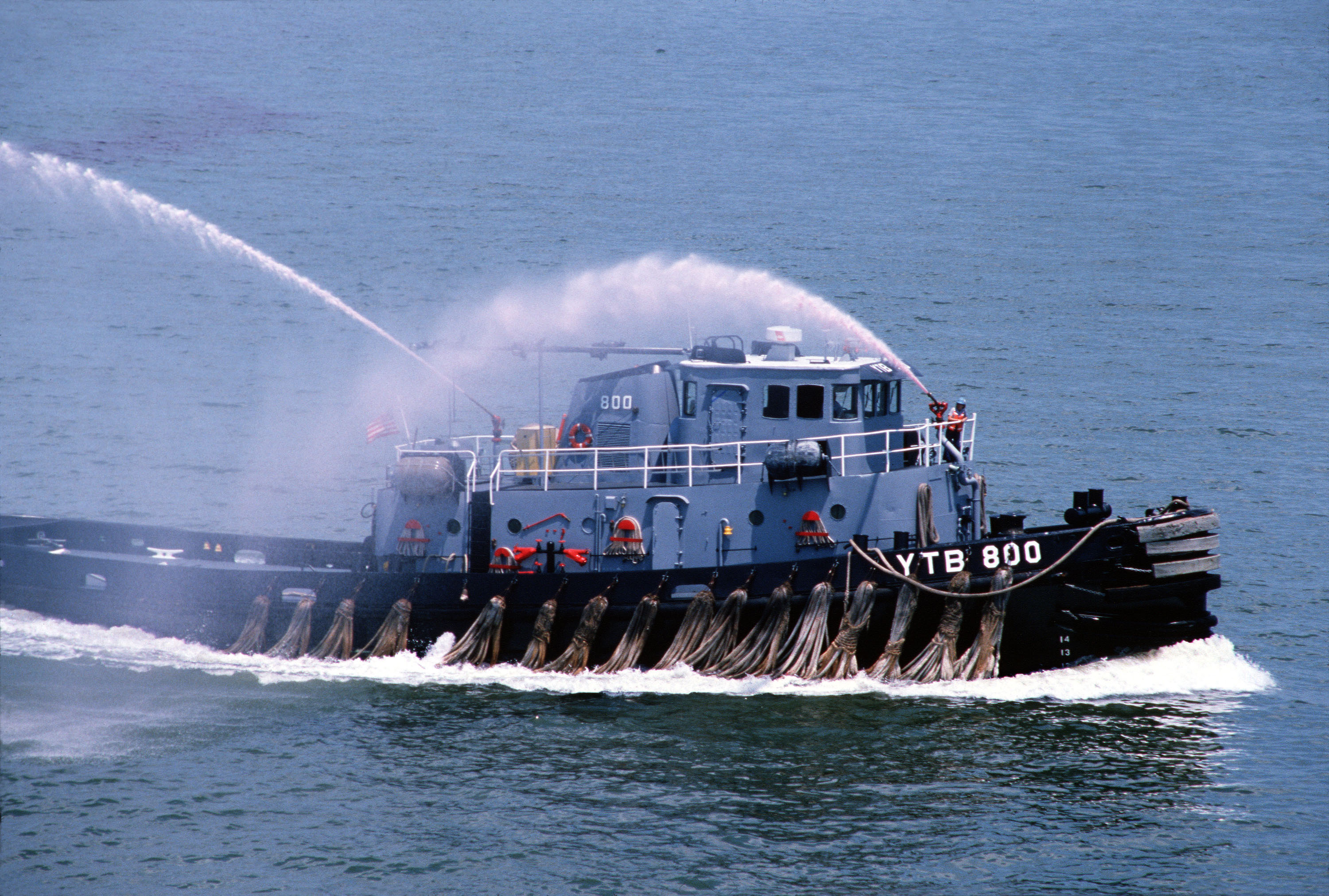 Crewmen aboard the large harbor tug (YTB 800) spray water into the air while escorting the aircraft carrier USS AMERICA (CV 66) into port, upon its return from the Mediterranean.